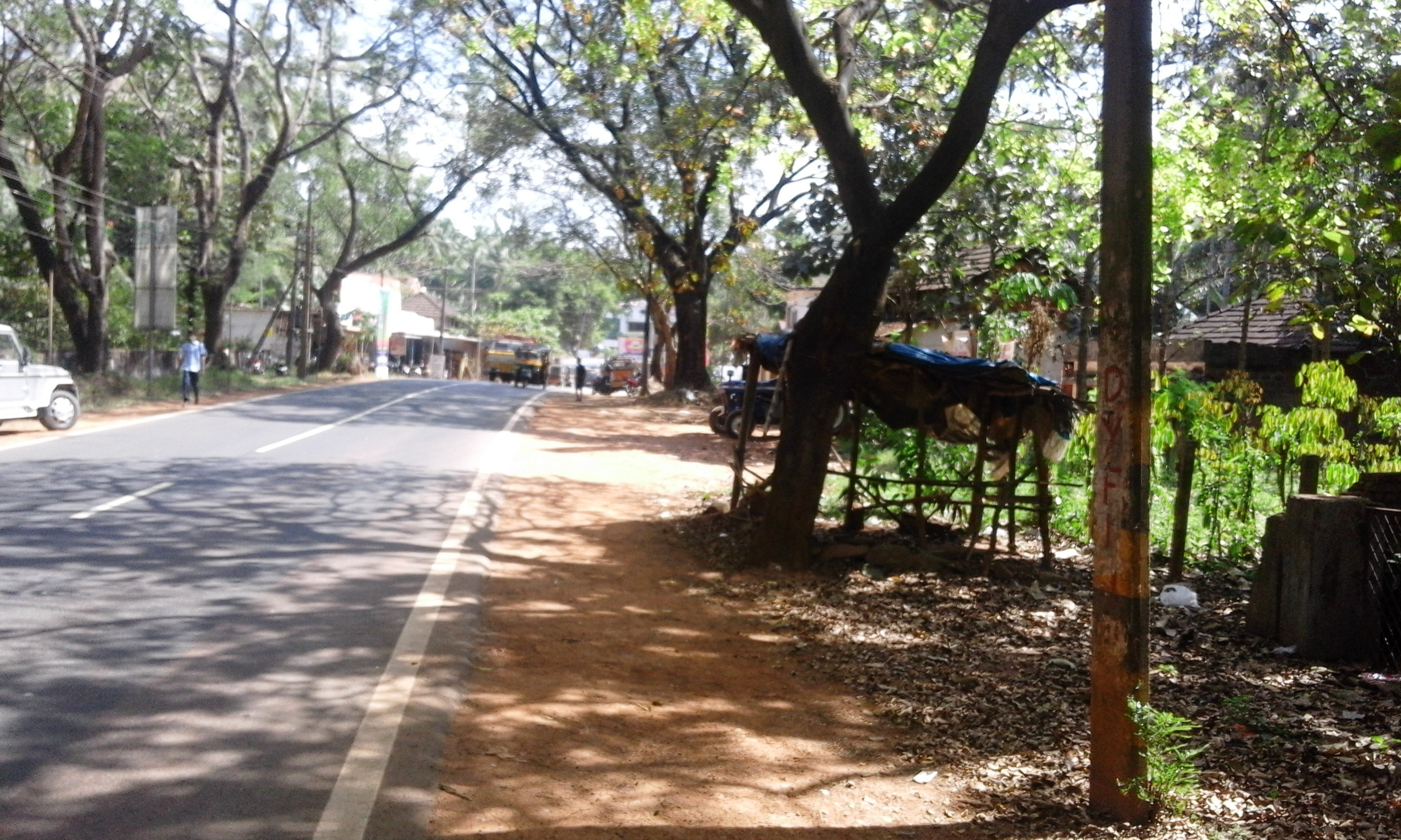 Kalladikode, Karimba panchayath, Palakkad District, South Malabar Region, Kerala State, India.